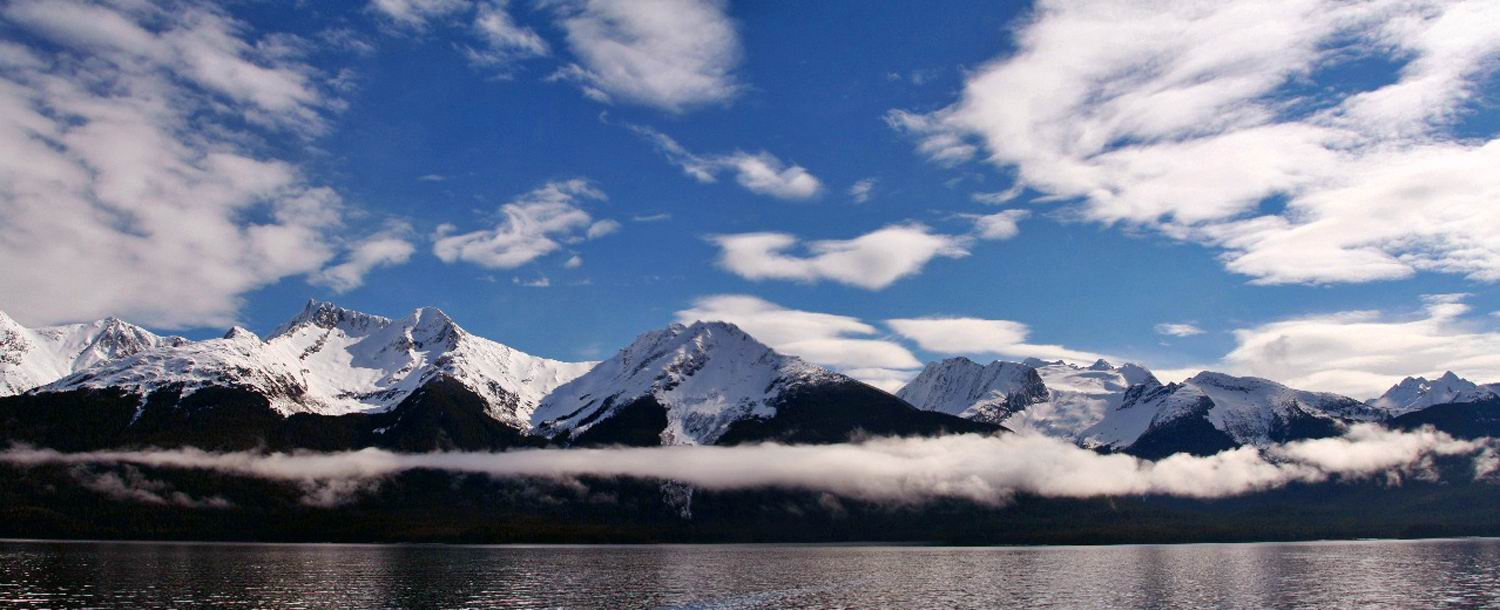 Wide-angle view of Taku Inlet area. Alaska, Taku Inlet.